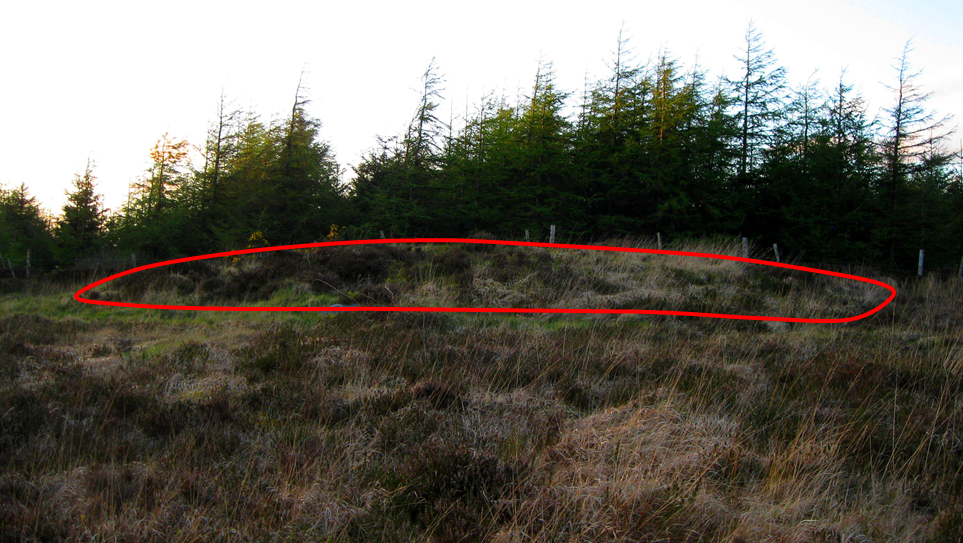 Cairn B is defined by the red line.